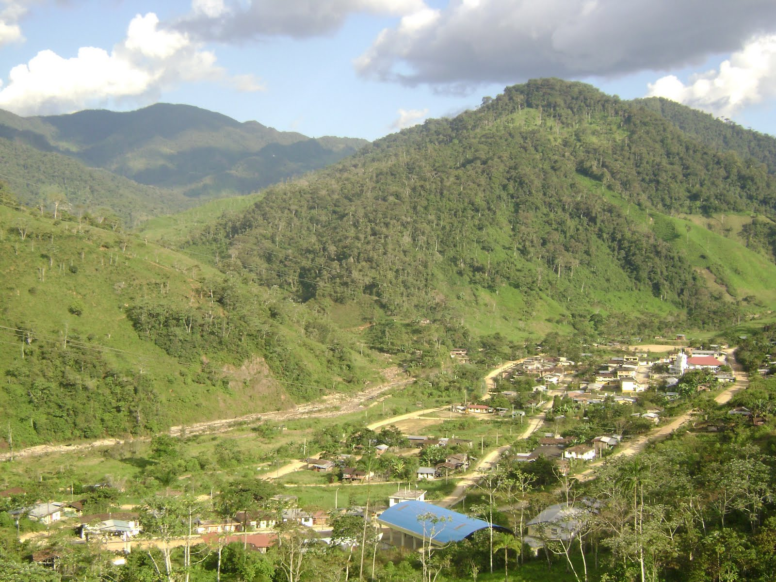 This is an image of the parish of San Carlos de las Minas - Zamora - Ecuador